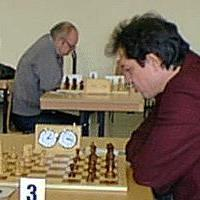 Edvins Kengis, February 2000 at Wattenscheid (in the backgound Robert Huebner), German Chess Bundesliga 1999/2000 , Photographer Gerhard Hund.